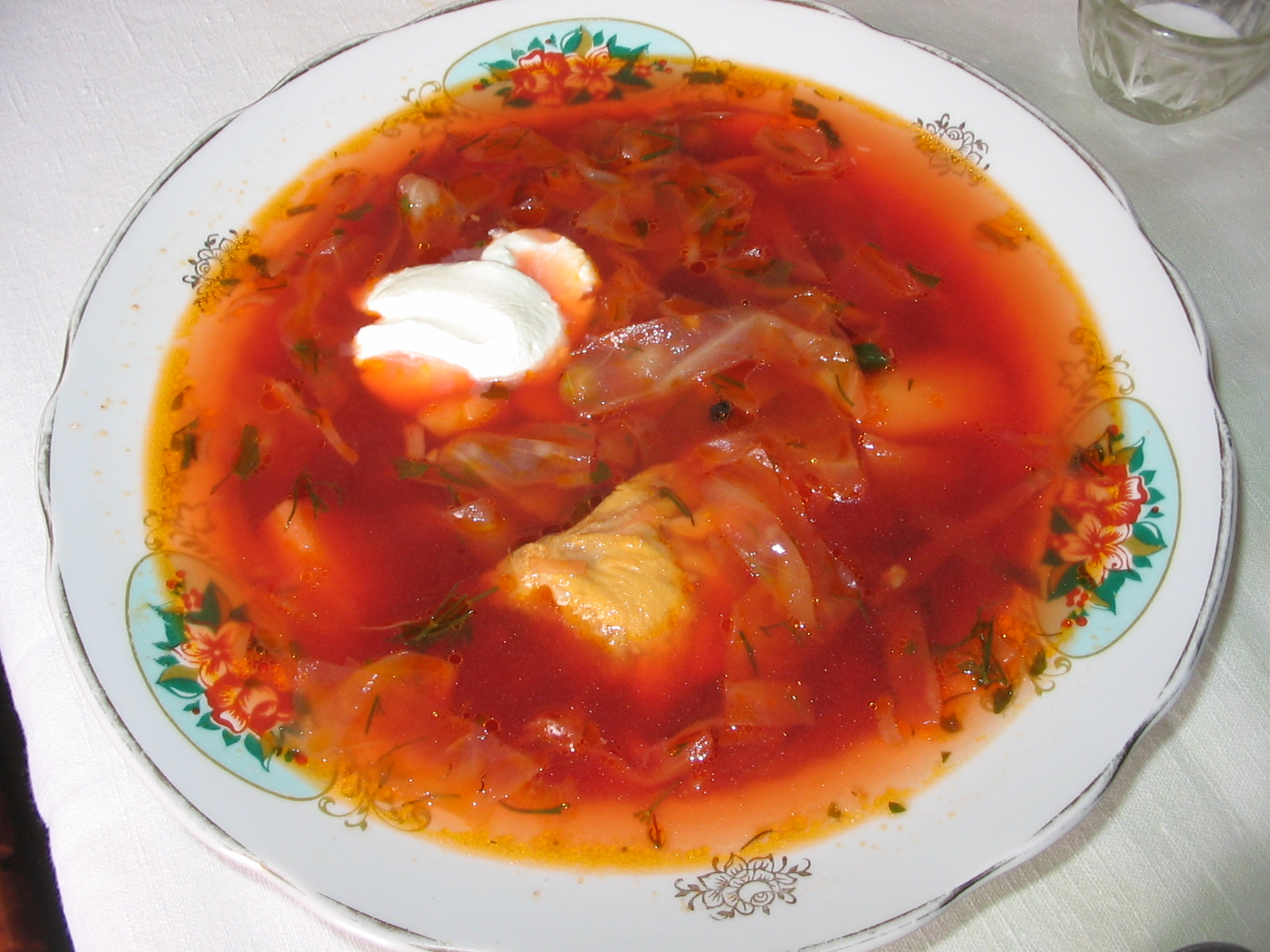 Ukrainian borscht — made from beetroots and other vegetables, with meat.